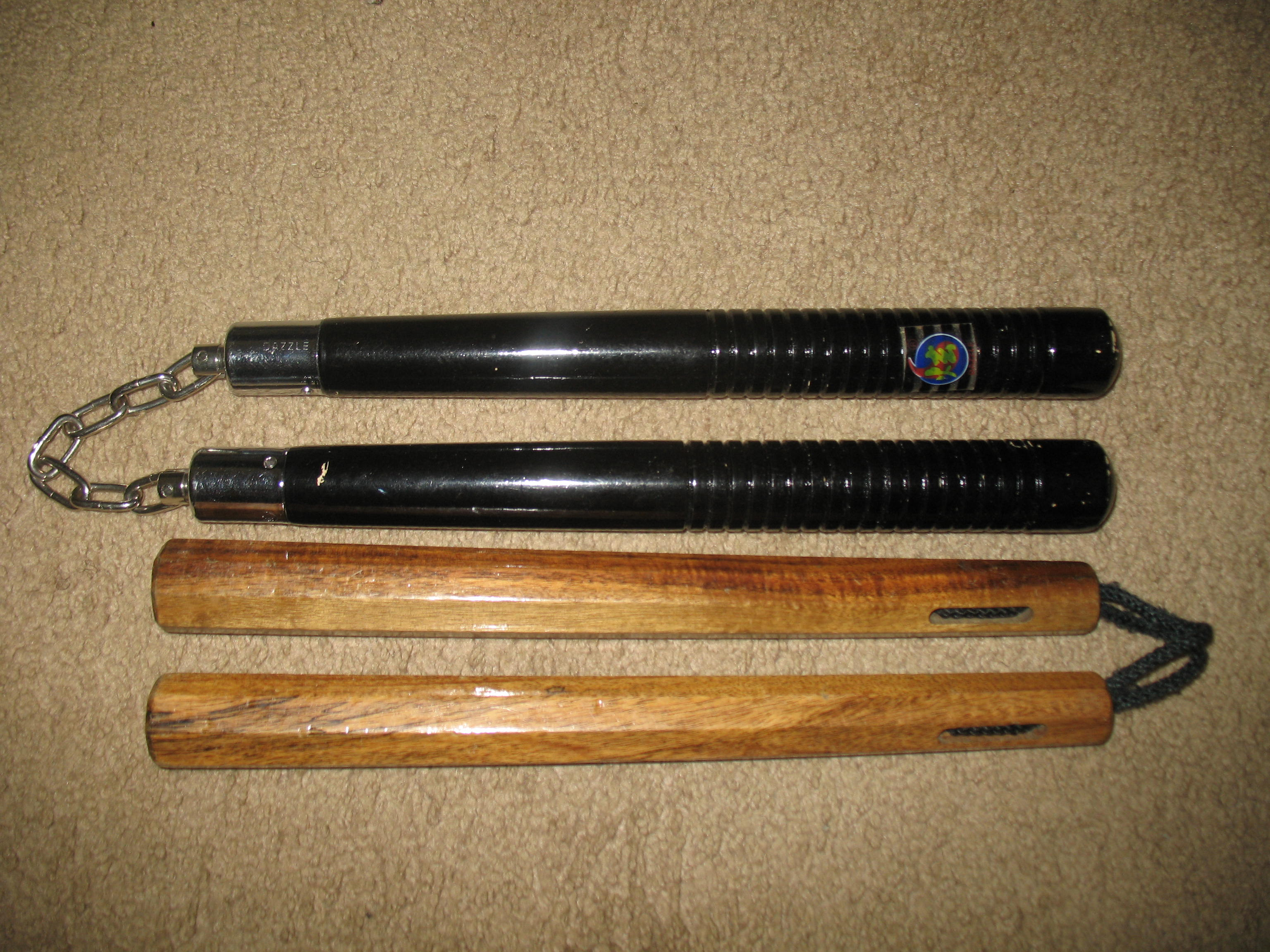 I, Antonio Vernon, am the photographer and release this photo for all fair uses.